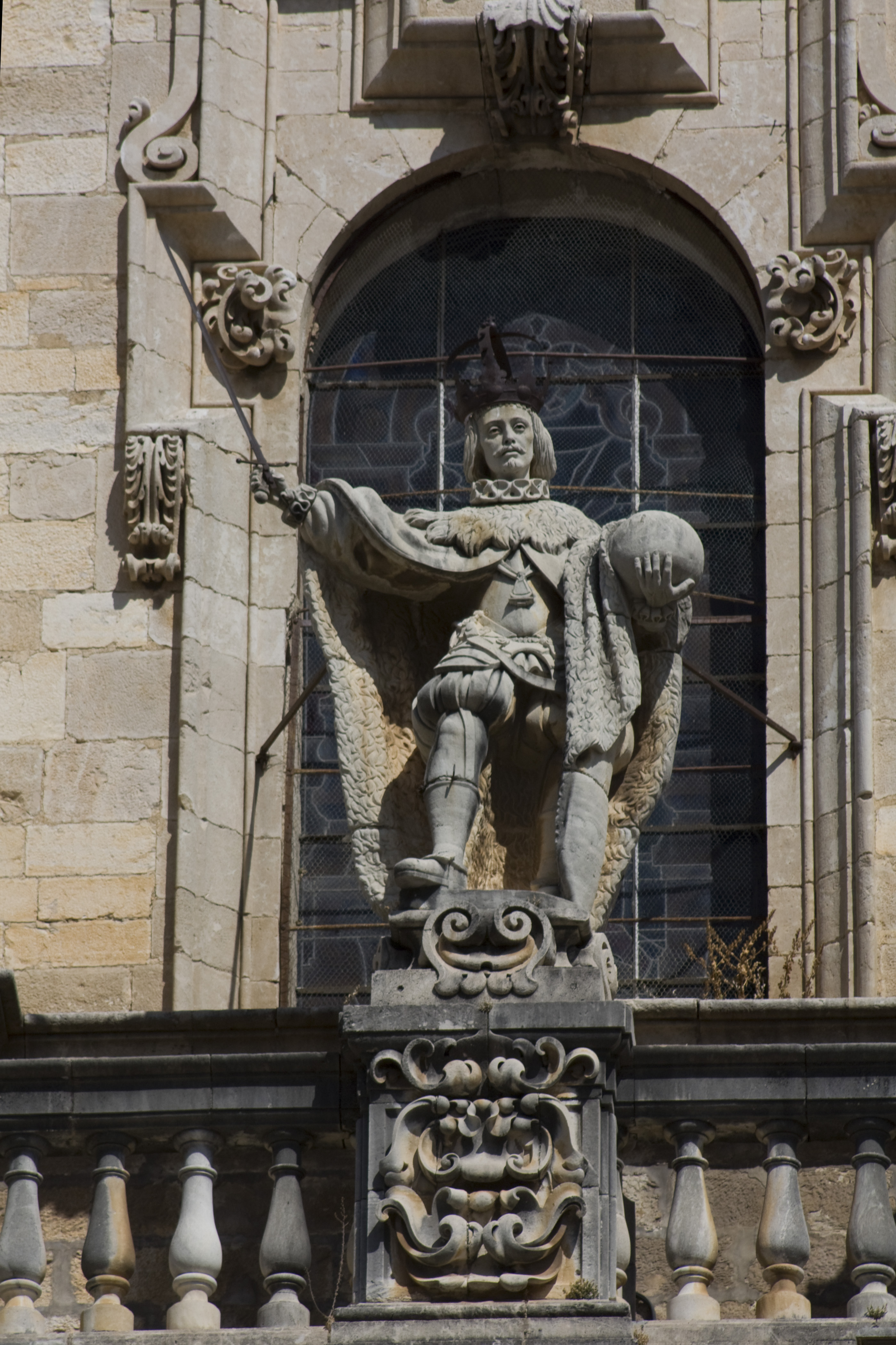 Saint Ferdinand.